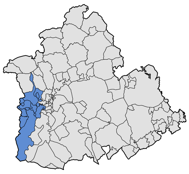 Map of El Aljarafe region, province of Sevilla, Spain